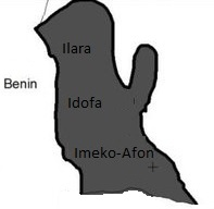 Map